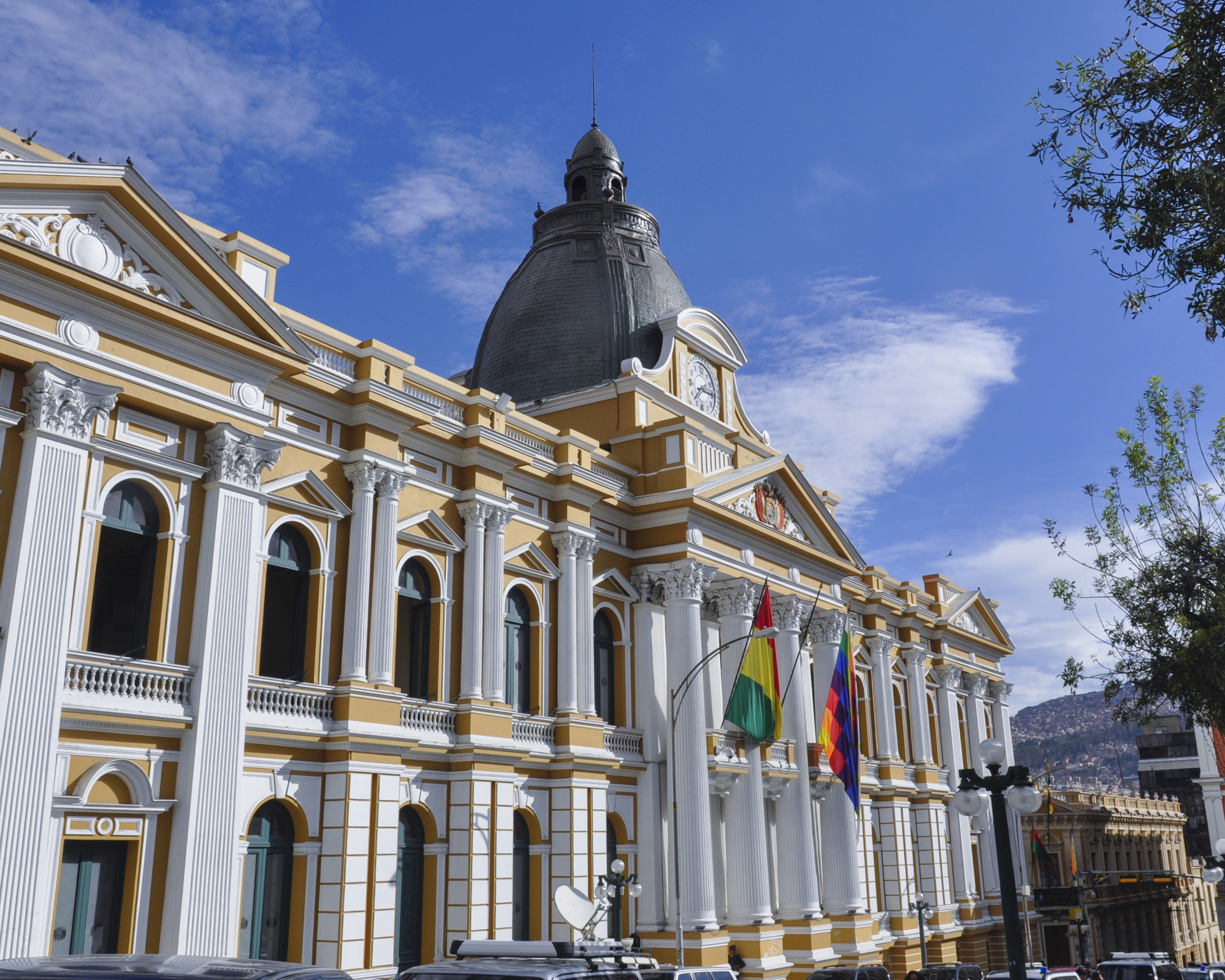 Side view of the palace of the legislative assembly in La Paz, Bolivia.